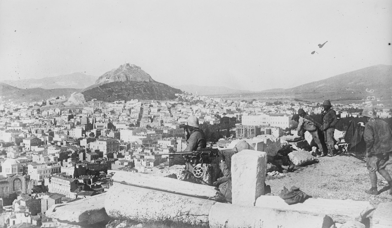 French troops with machine guns keeping watch over Athens after the Noemvriana, winter 1916/17